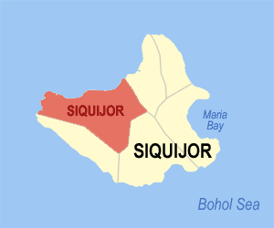 Map of Siquijor showing the location of the Municipality of Siquijor